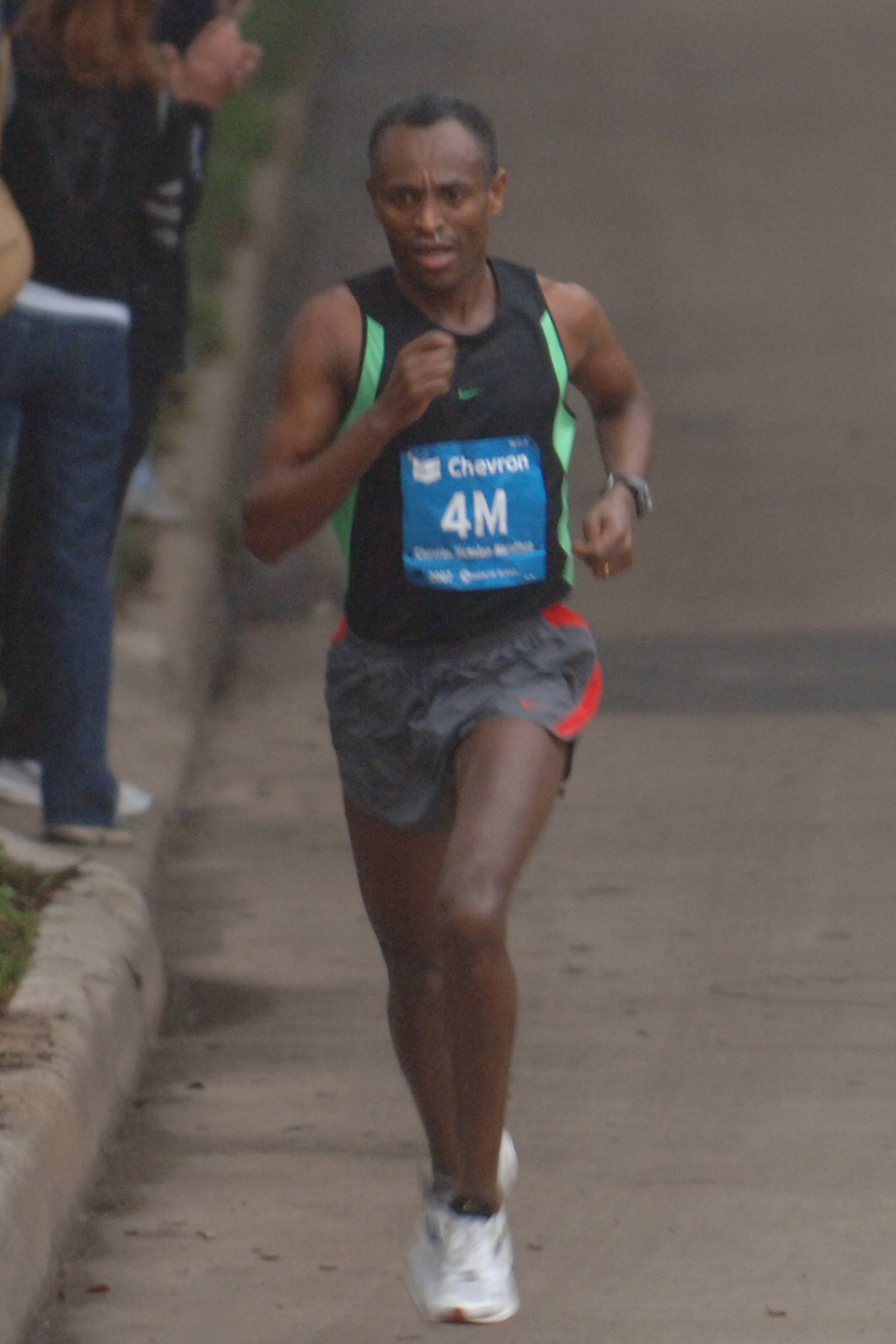 Tesfaye Eticha at 2007 Houston Marathon